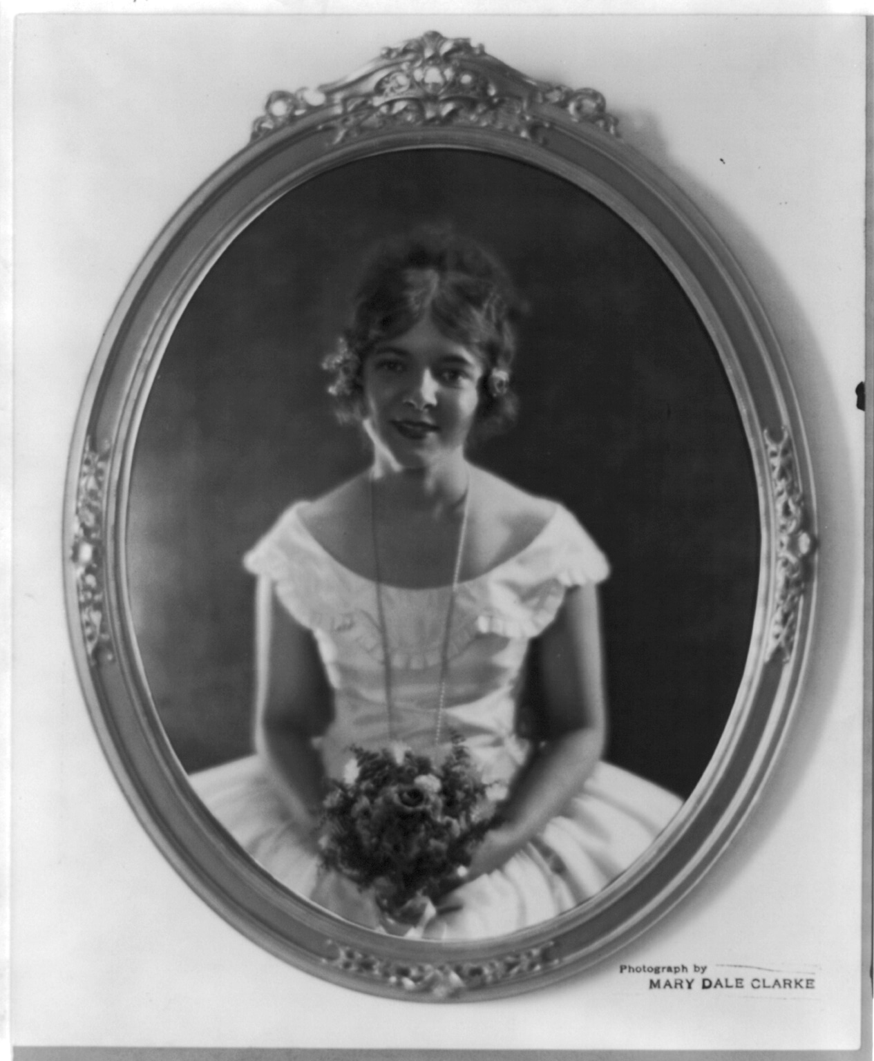 1921 posed photograph of Helen Hayes holding a bouquet.